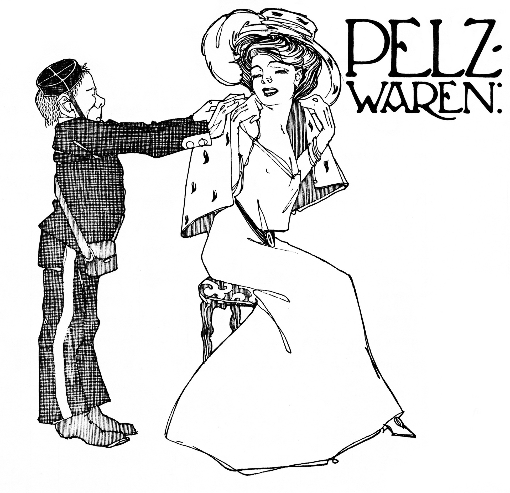 Newspaper advertisement for the fashion department of the german warehouse "Kaufhaus des Westens" (KaDeWe), Berlin, cartoon by August Hajduk